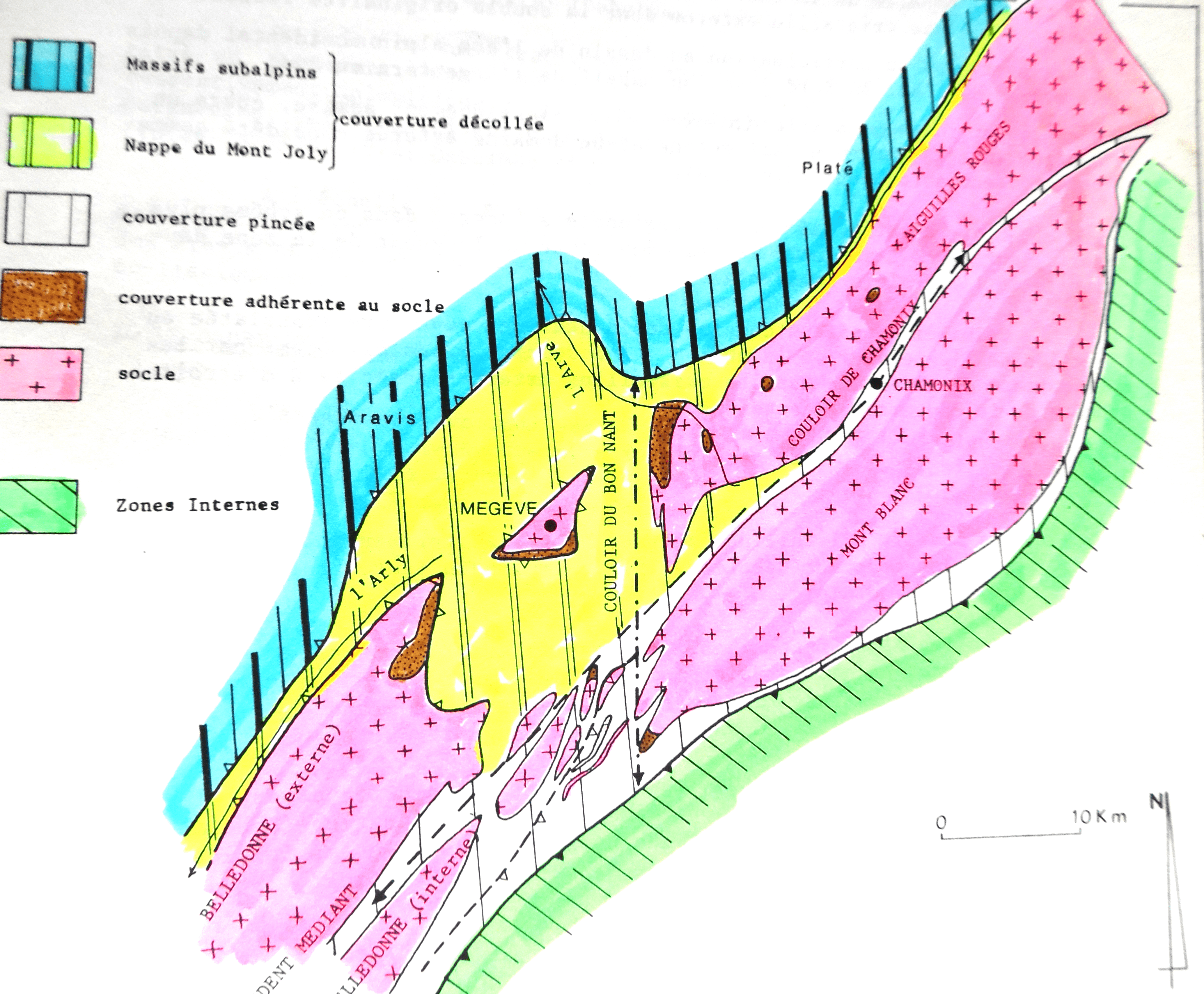 Structural geological map of the Montblanc massif and its surroundings.